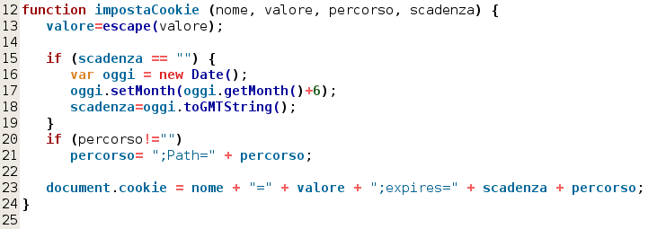 A simple JavaScript code snippet from Bluefish Editor